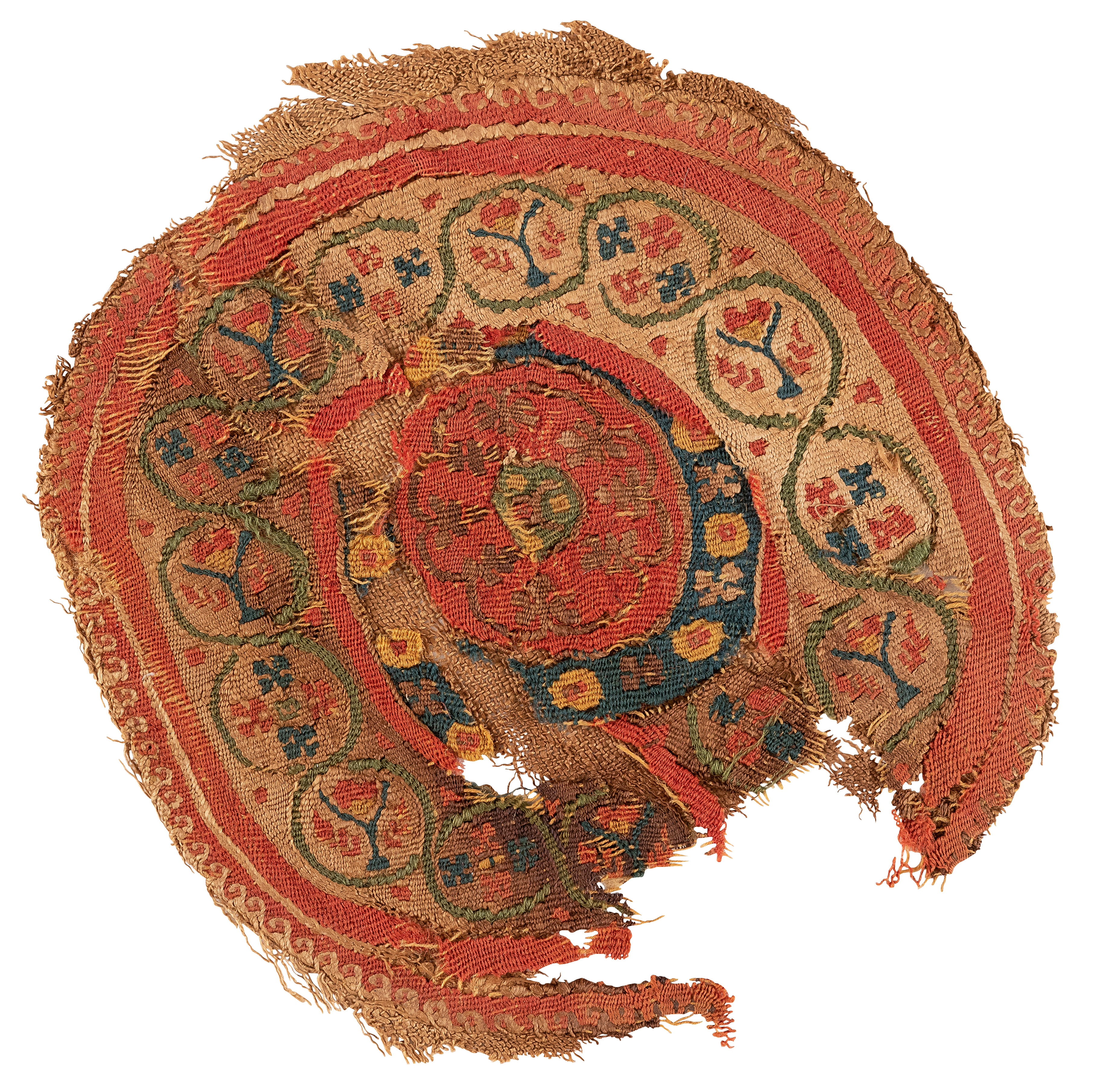 Fragment of coptic textile. Tunic decoration. V-VI cc.